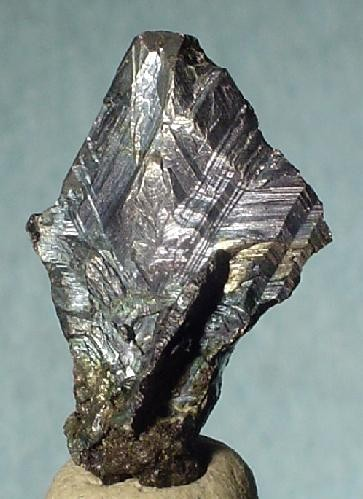 Polybasite Locality: San Genaro Mine, Castrovirreyna District, Castrovirreyna Province, Huancavelica Department, Peru (Locality at ) Size: 2.3 x 1.6 x 1.0 cm. A super-sharp and aesthetic thumbnail of iridescent polybasite from the famous San Genaro Mine of Peru and the Allan Young Thumbnail Collection.